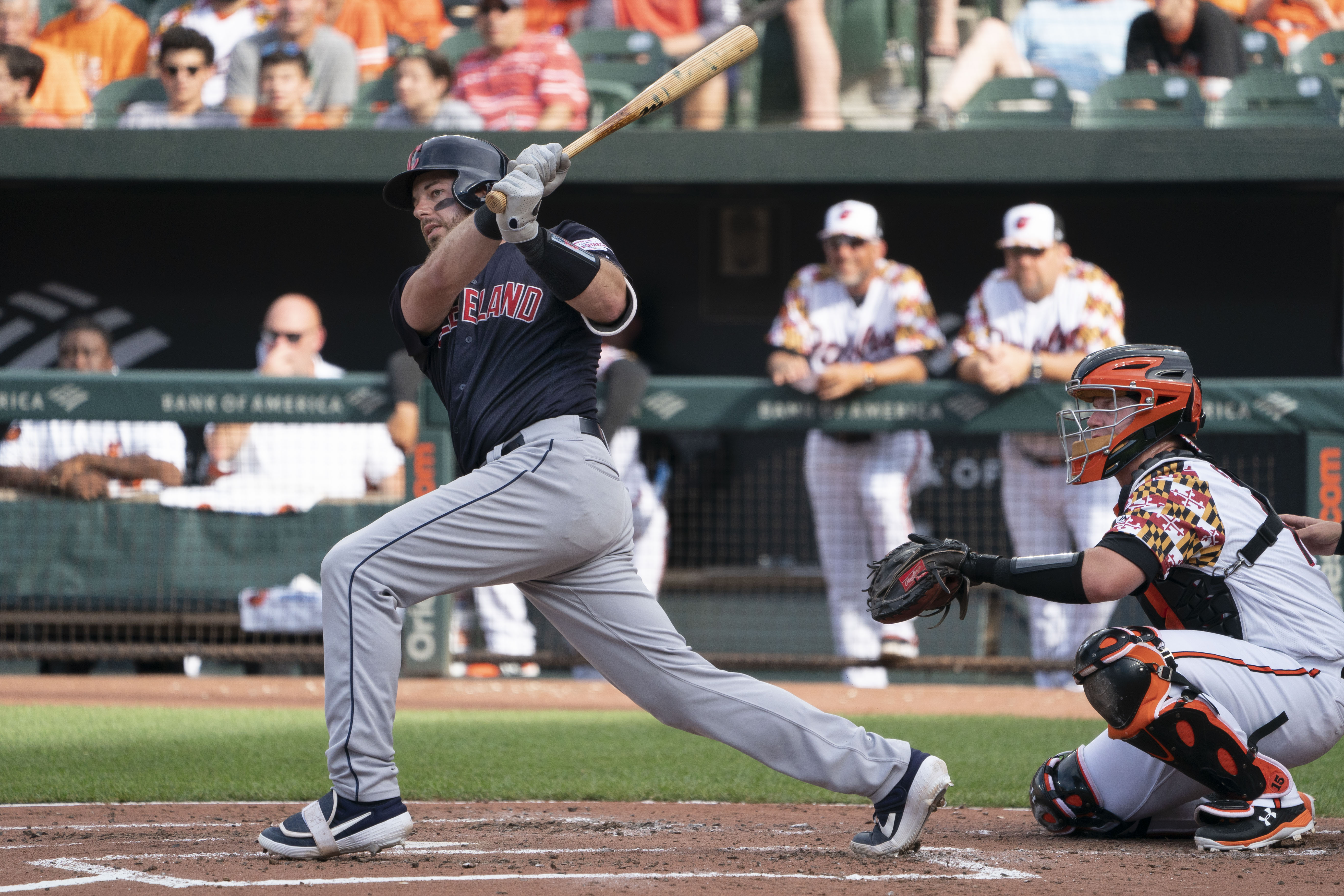 Kevin Plawecki bats for the Cleveland Indians during a 2019 game at Camden Yards in Baltimore